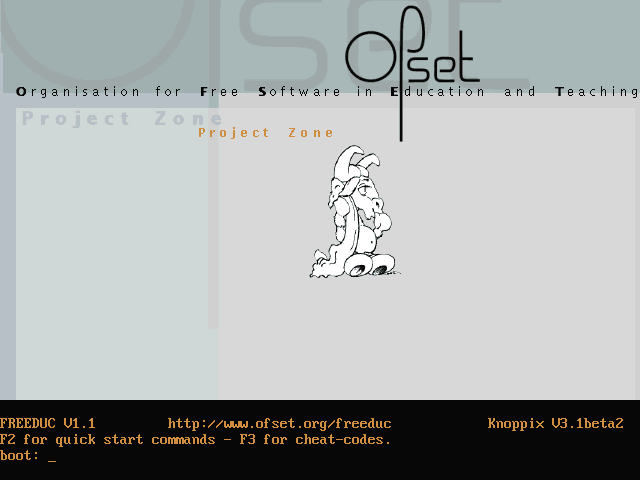 Copy of the bootsplash image provided by Freeduc-CD 1.1